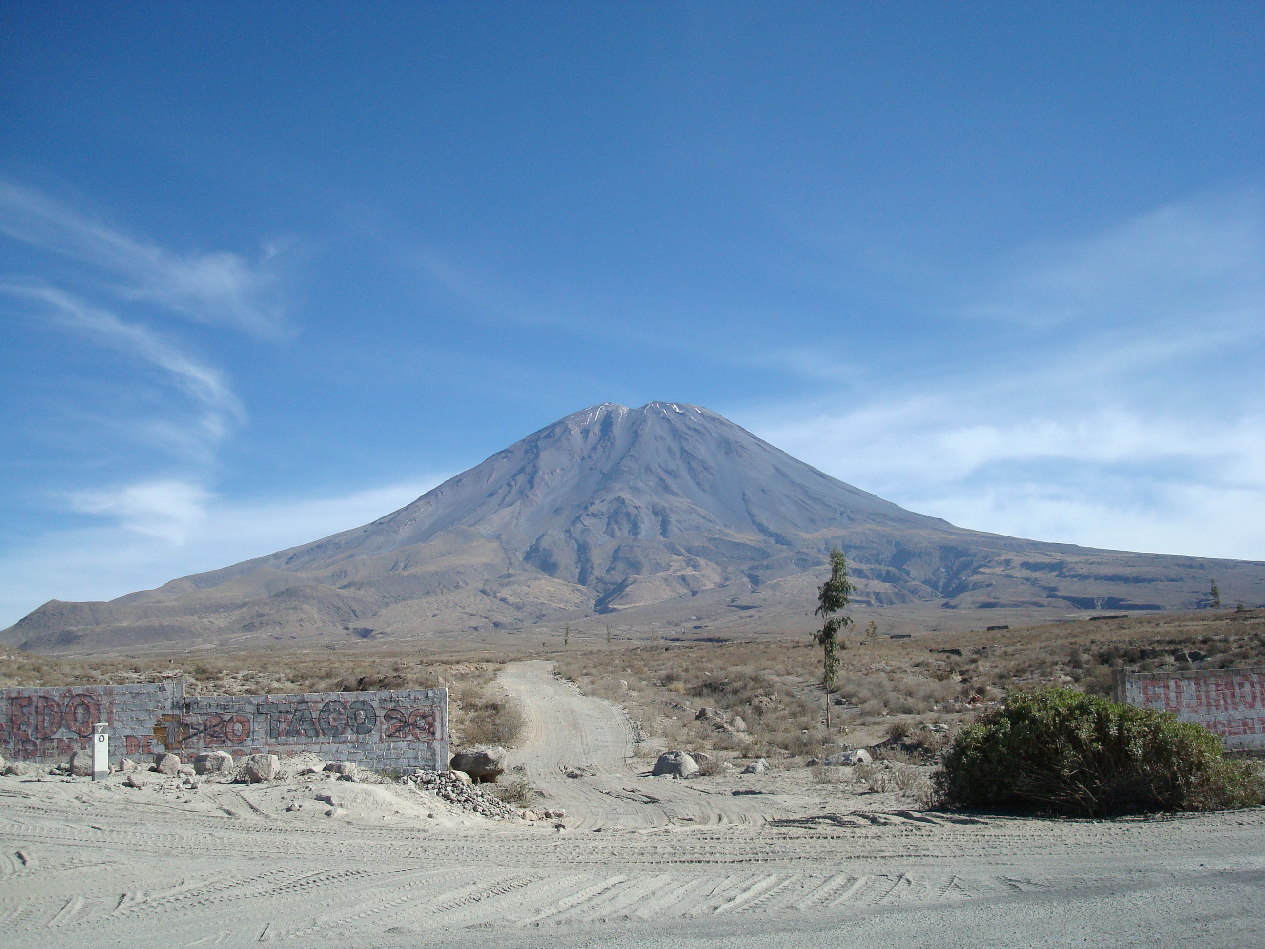 View of El Misti from the road to Chiguata in Arequipa